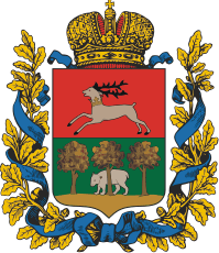 Lublin gubernia (Russian empire), coat of arms